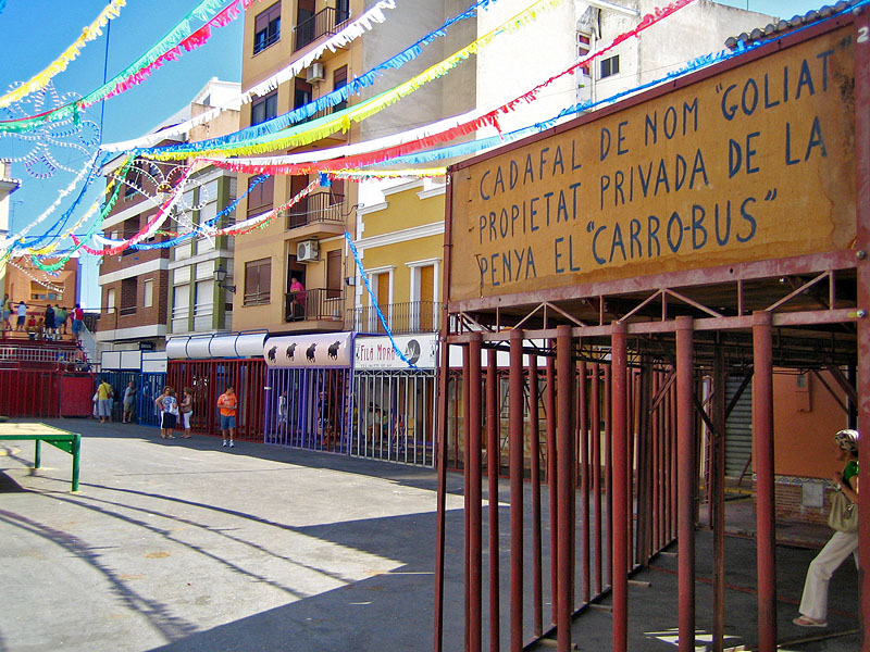 Cage or escarafall typical in bull-running festivities, used to shield the participants from the bull. El Verger, county Marina Alta, Region of Valencia, Spain